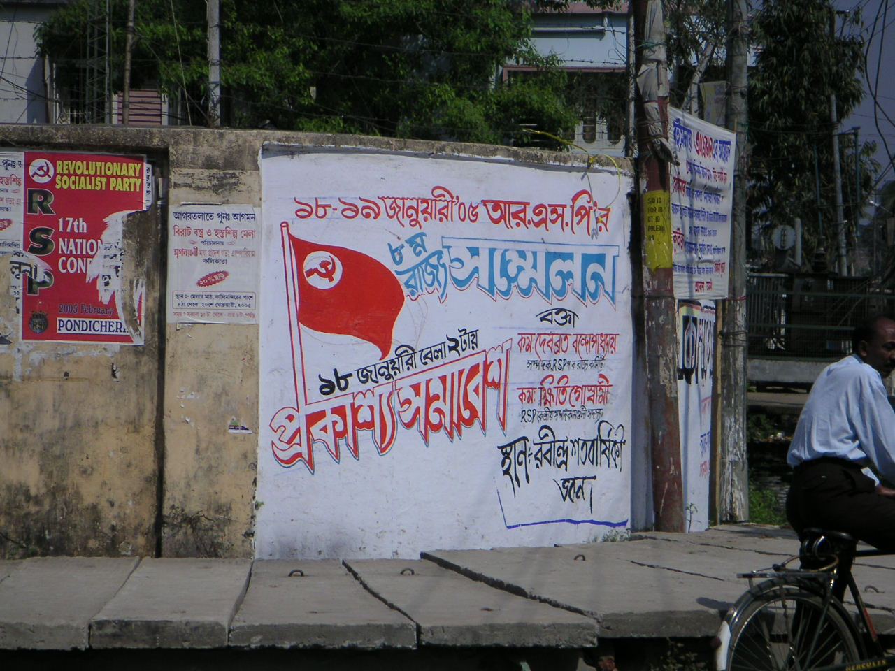 Revolutionary Socialist Party mural in Agartala, Tripura. Photo: Soman